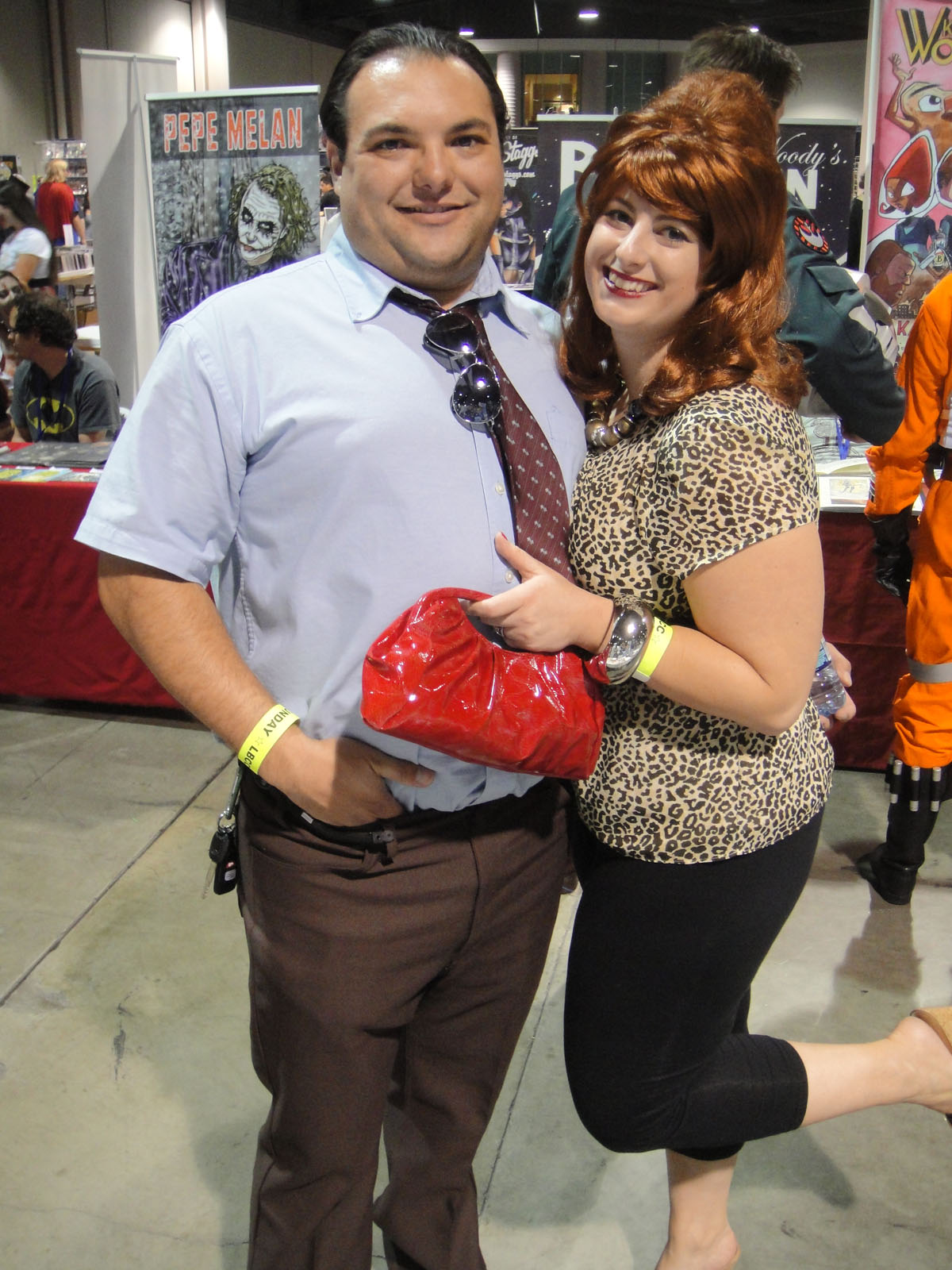 photo 2011 Pop Culture Geek taken by Doug Kline If you're interested in higher resolution versions of my images, contact me via my profile page.